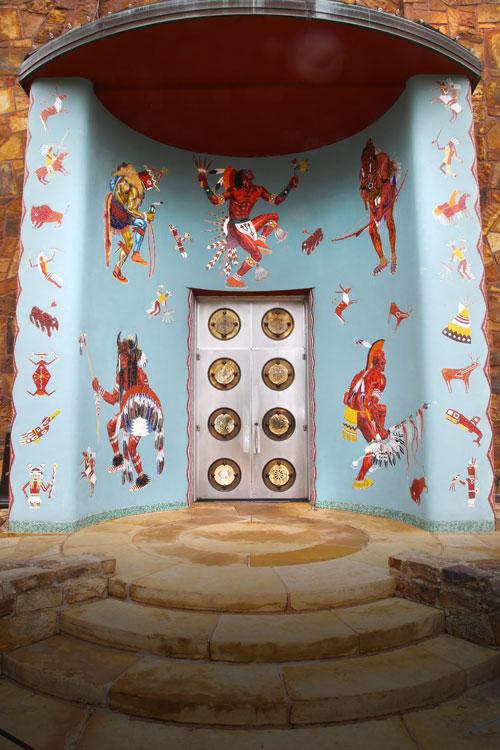 Entrance to the 50,000 square foot Woolaroc Museum, home to western and Native American art and artifacts, taxidermy, Colt Firearms, Oklahoma history and more.